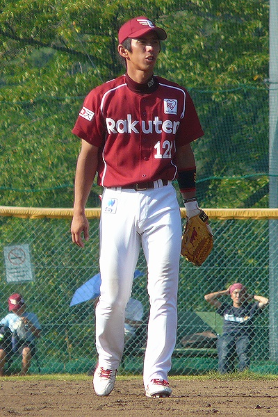 RE-Koji-Matsui20100826